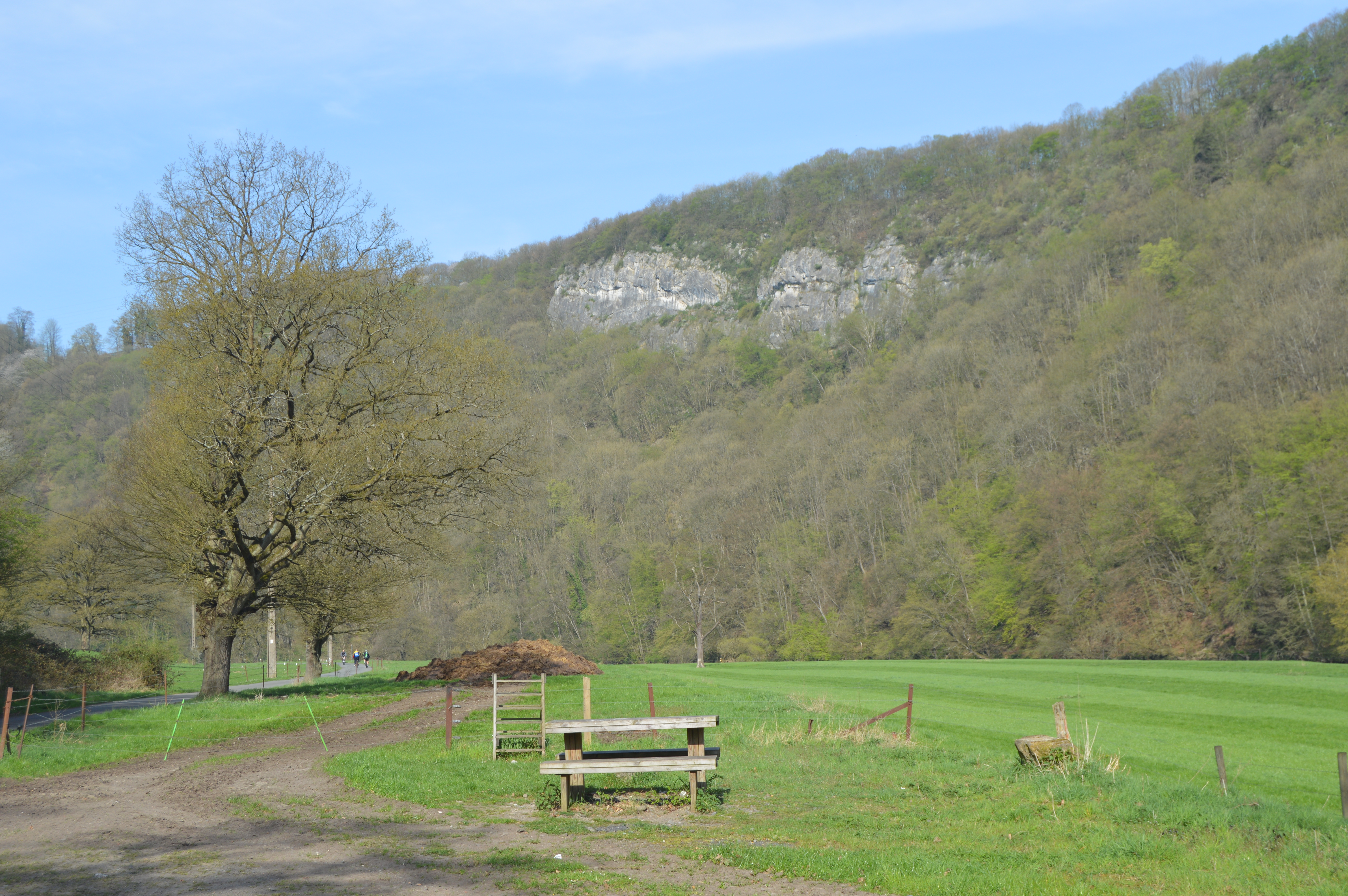 Panoramic view of the Ourthe and Esneux, from the Roche-aux-Faucons, Neupré, Belgium.